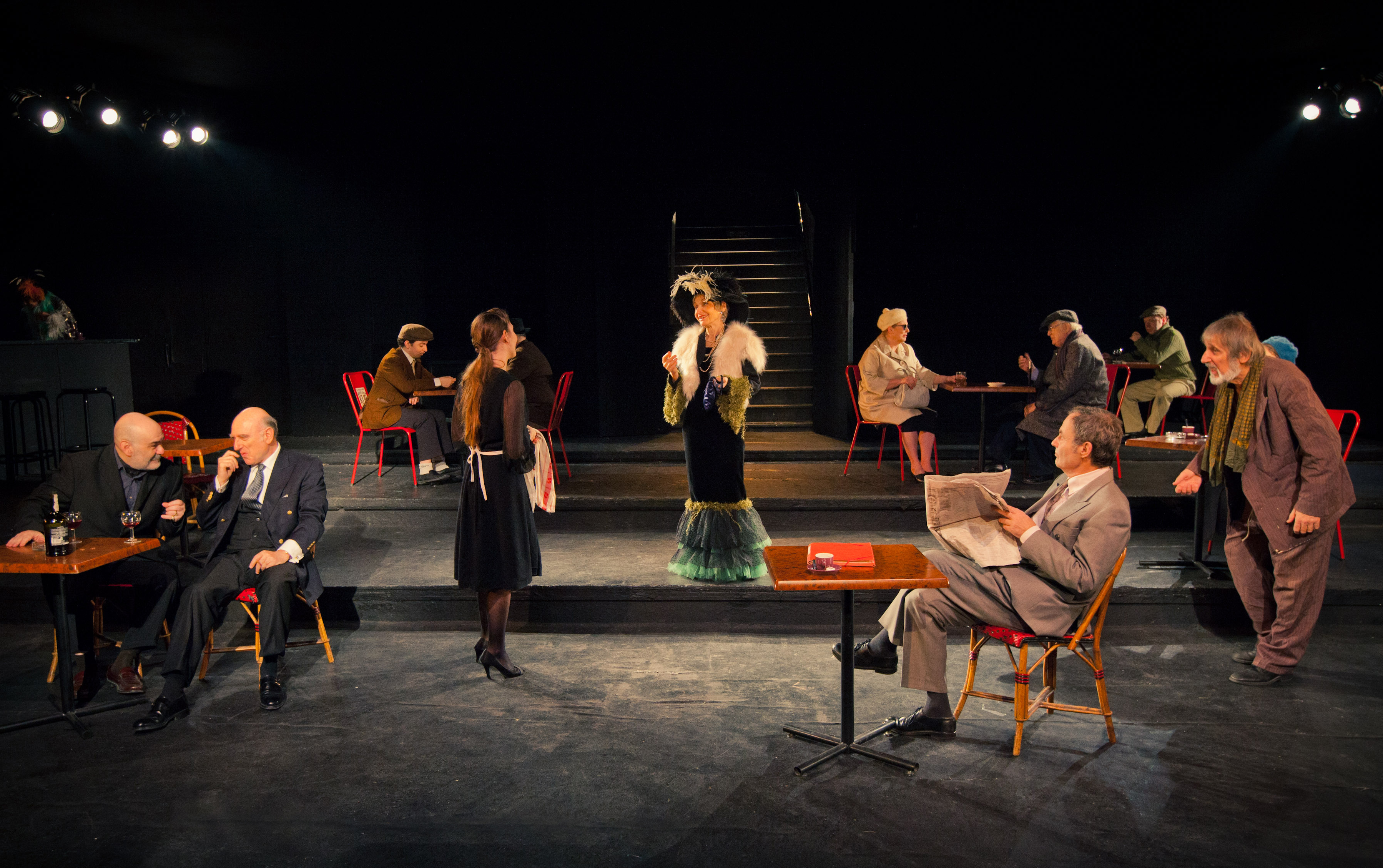 La Folle de Chaillot, written by Jean Giraudoux and directed by Jean-Luc Jeener Théâtre du Nord-Ouest 2012